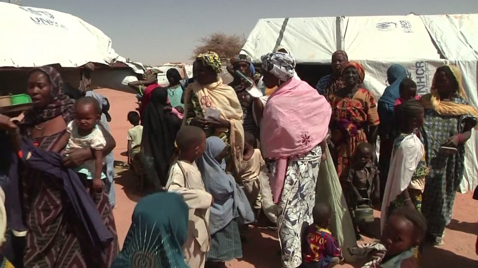 Mangaïzé refugee camp, municipality of Tondikiwindi, Niger (2013). Video still extracted from the video Malian refugees fight hunger in the Niger.